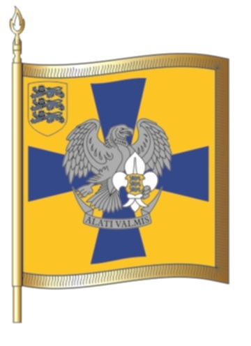 Young Eagles Tallinn district flag badge